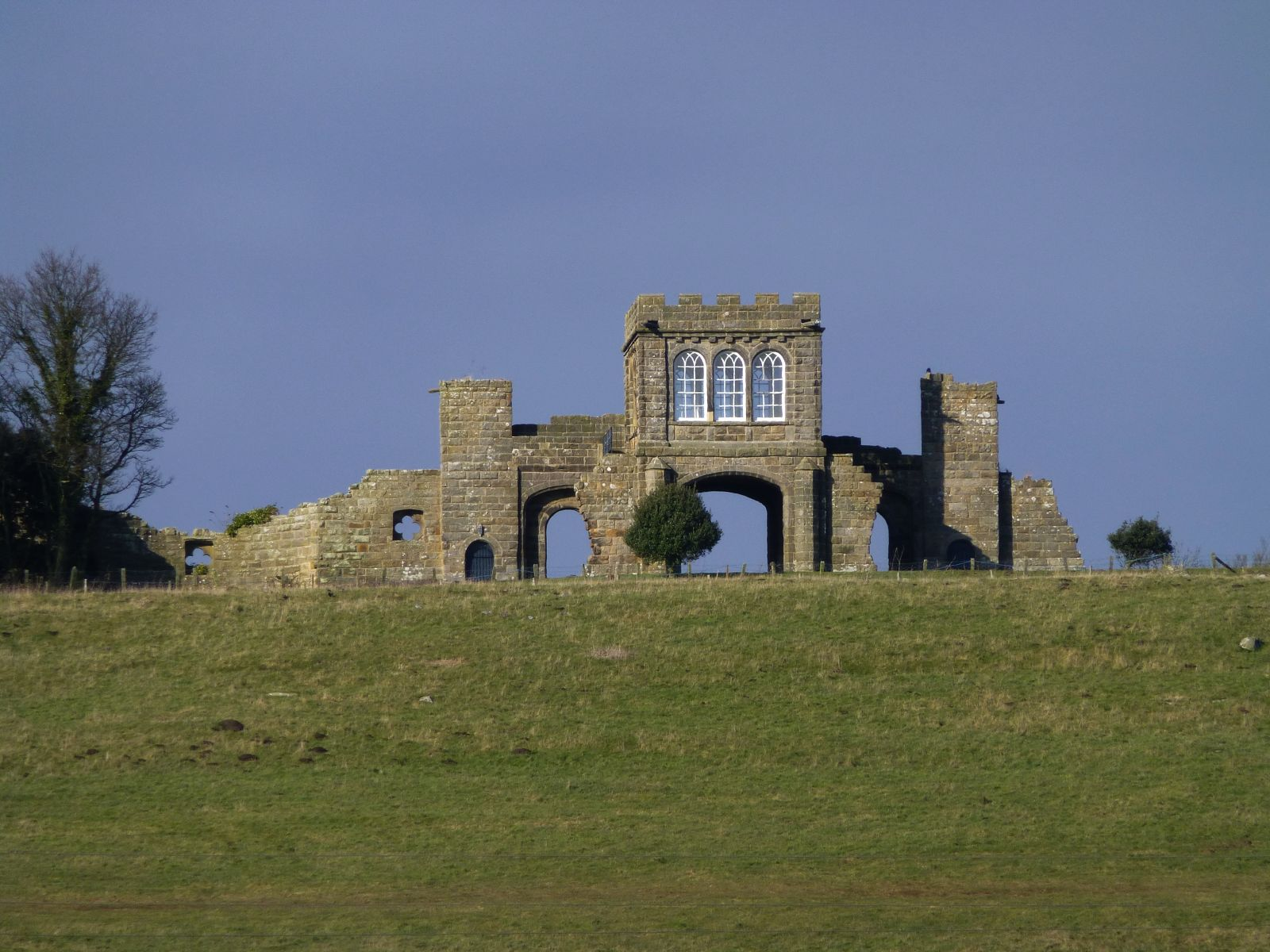 East elevation of Ratcheugh Observatory near Longhoughton in Northumberland, England